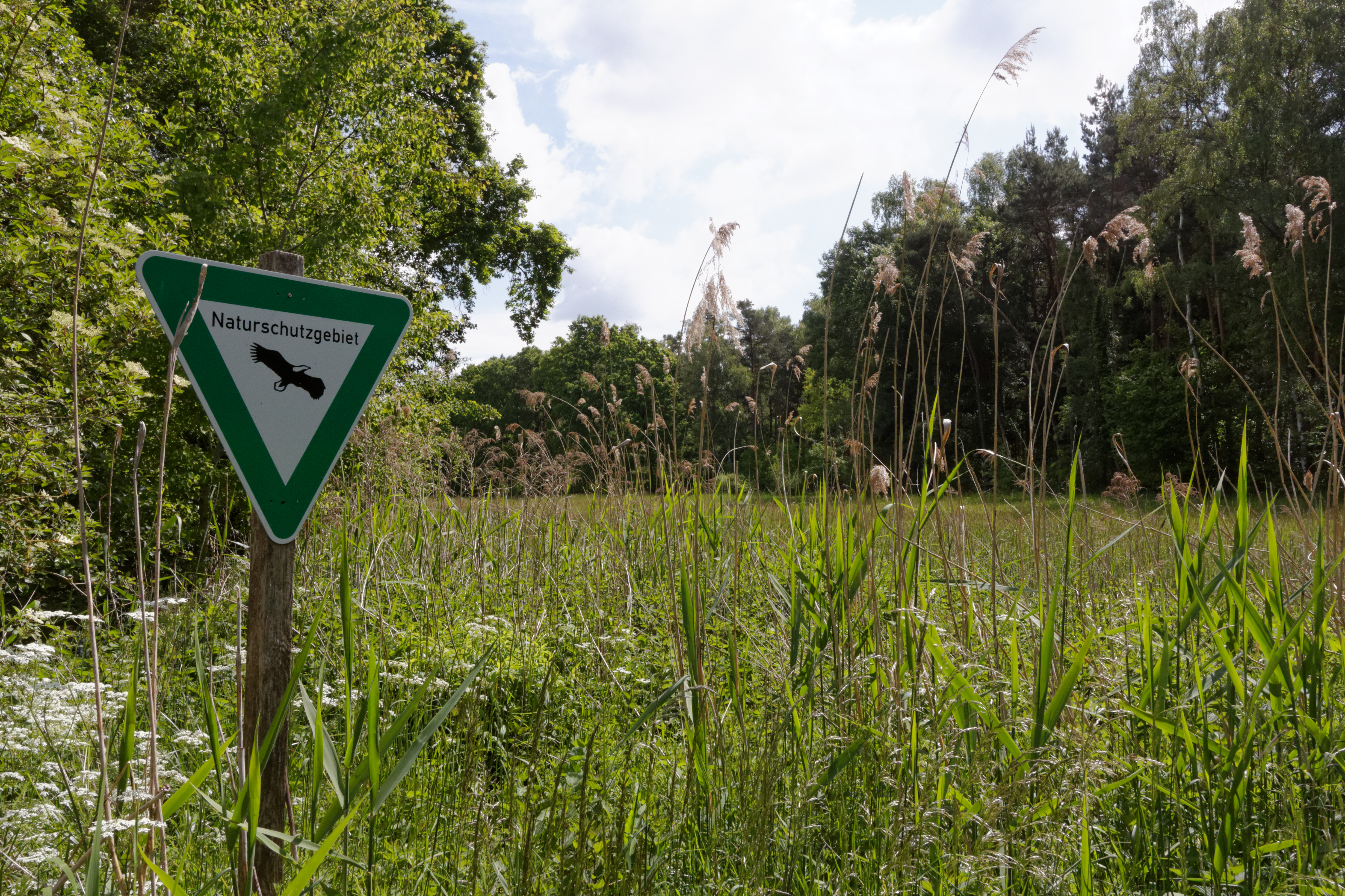 Nature reserve ”Rodauwiesen bei Rollwald“ near Rodgau, Hesse, Germany.